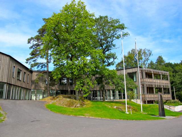 Kamratgården, the club house of IFK Göteborg situated in the Delsjö area in Göteborg (Gothenburg). The current club house was built in 2012–2013 and replaced the old club house on the same site.